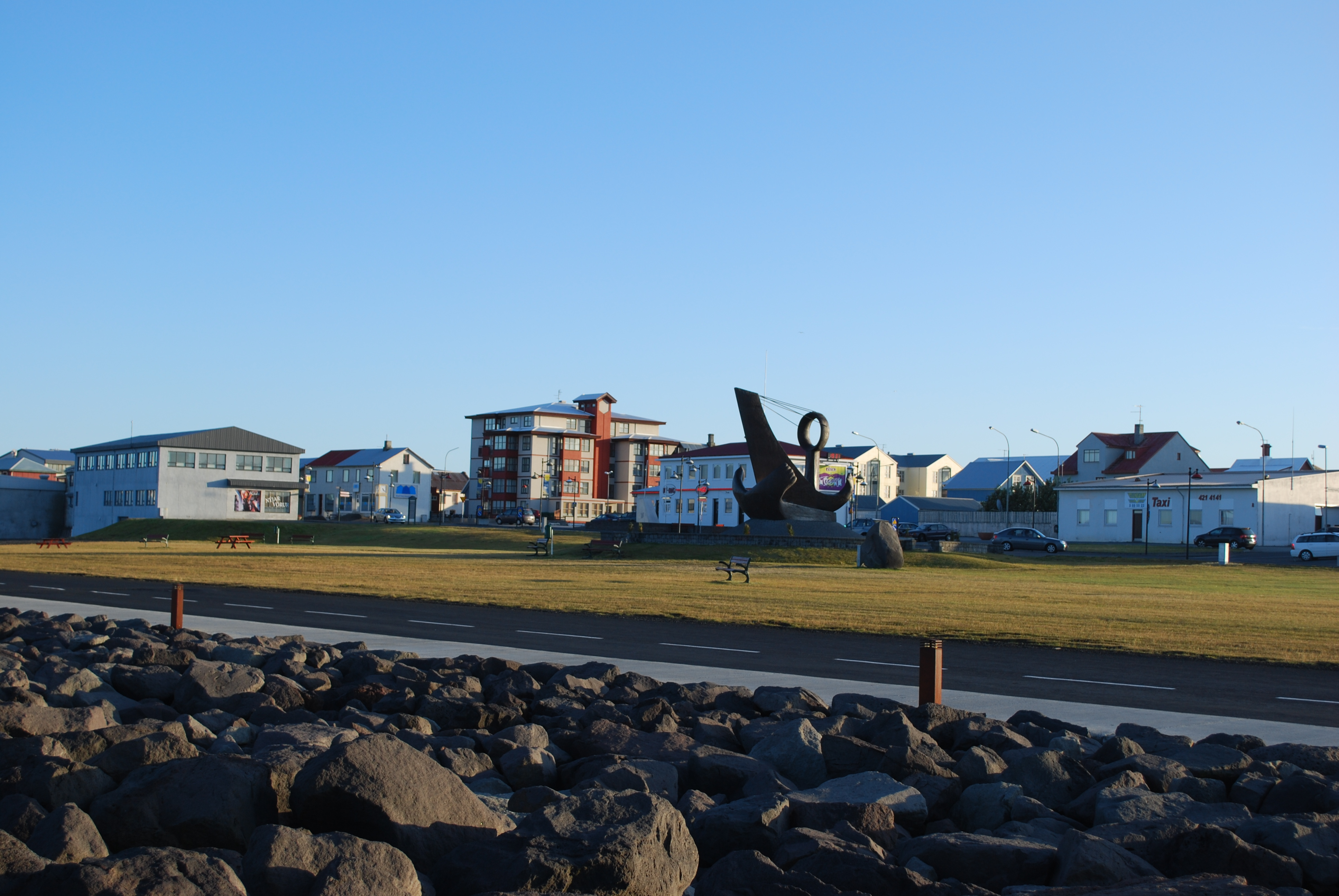 Keflavík from seaside, Iceland